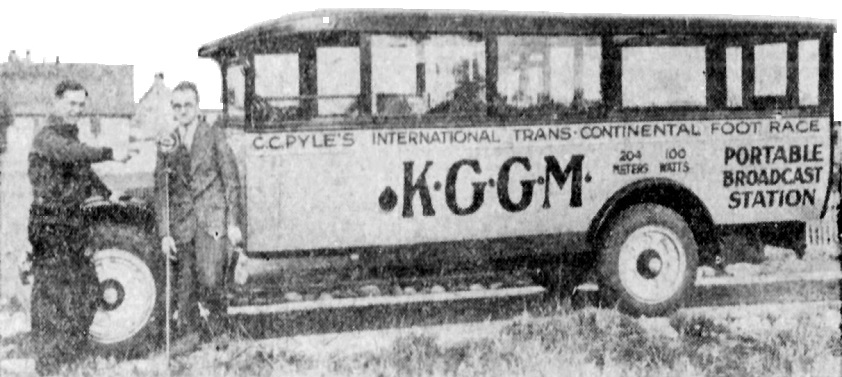 Bus-mounted portable radio broadcast station KGGM, hired by C.C. Pyle to broadcast the day's results at stops along the route of his "Bunion Derby" cross-country foot race. The transmitting wavelength of "204 meters" corresponds to a frequency of 1470 kHz. Original caption: "PORTABLE RADIO ON GRAHAM SCHOOL BUS: Station KGGM, one of the few portable radio stations in the country carrying a federal sanction for wave length, is operated in a Graham Brothers school bus. The truck is accompanying runners in the coast-to-coast 'bunion derby' from Los Angeles to New York, and broadcasts the daily standing of the contestants as well as musical programs. The runners are now in New Mexico headed eastward."